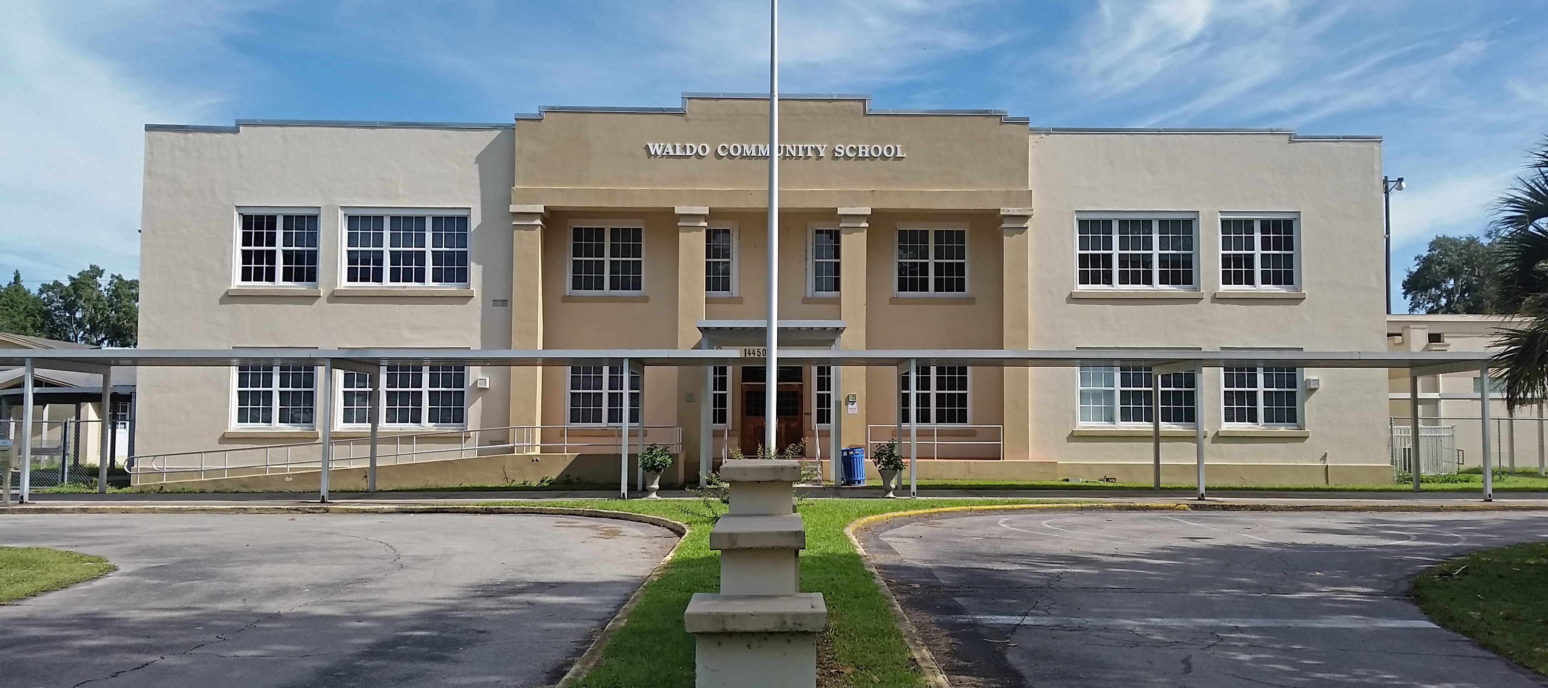 Built in 1922, this building was the first High School in the City of Waldo, FL. After closing in May 2015, the historic school is now called the Waldo City Square.